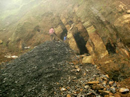 Since amber in the Dominican mountains is tightly imbedded in a lignite layer of sandstone, slightly angled holes are dug into the sides of the cliffs. (Originally published here and used with permission of the photographer)